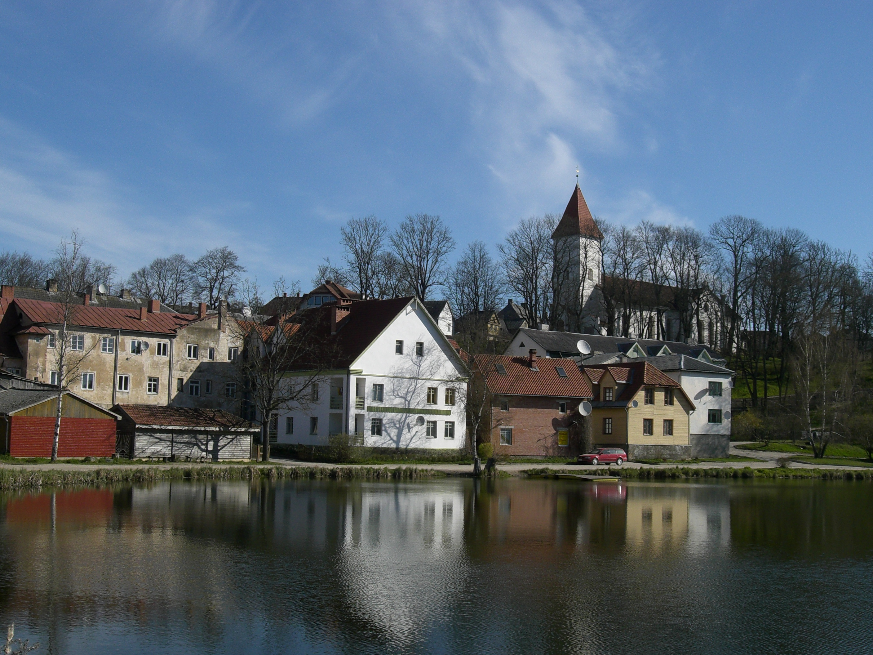 Talsi town in Latvia. Panorama